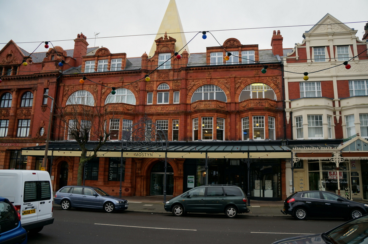 Mostyn Art Gallery, Llandudno